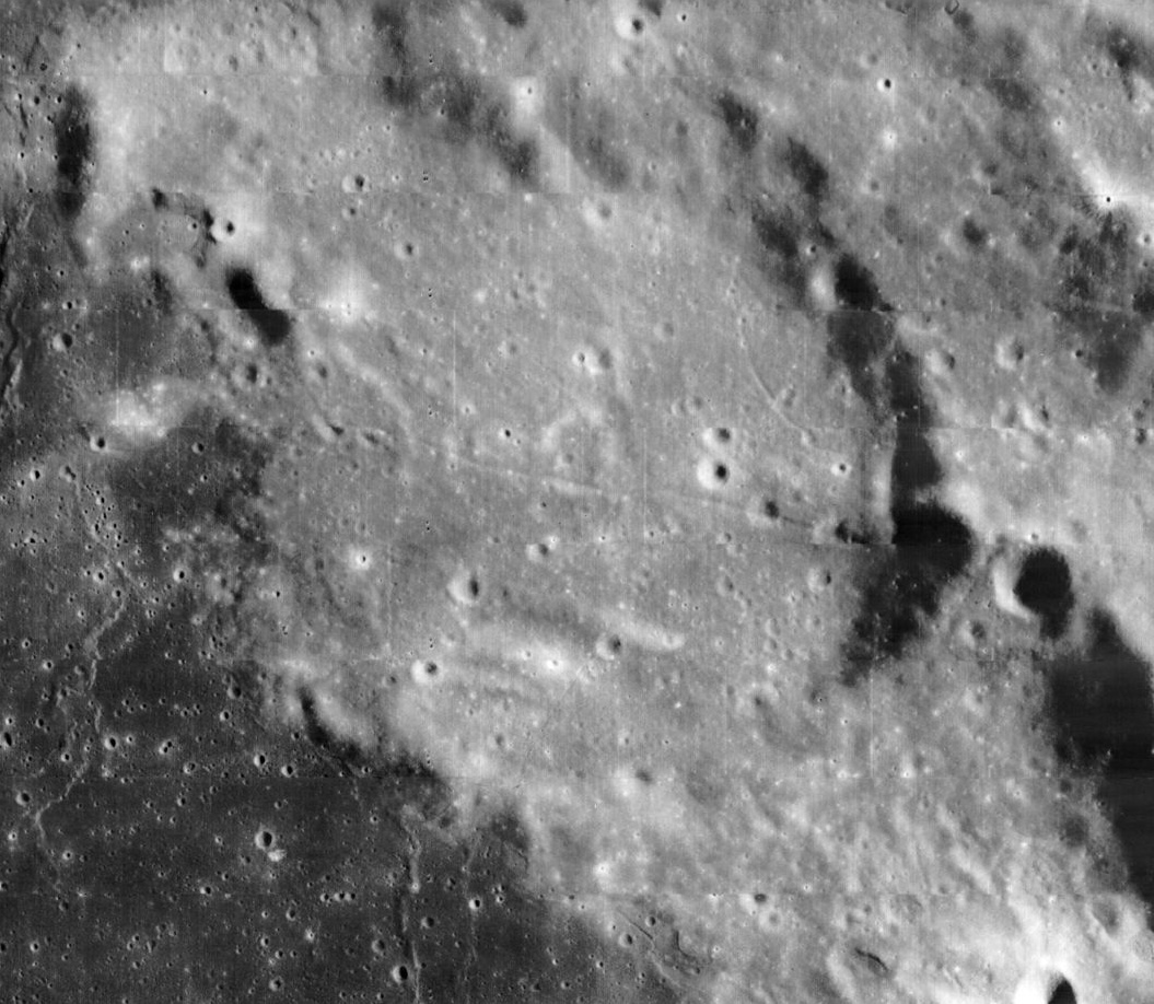 McAdie, on the moon, with north at top.